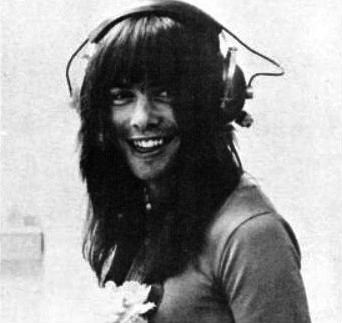 Photo of musician Nigel Olsson from a Dick James Music company ad.